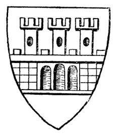 Coat of arms Pomian from the seal of komes Mroczek, 1262